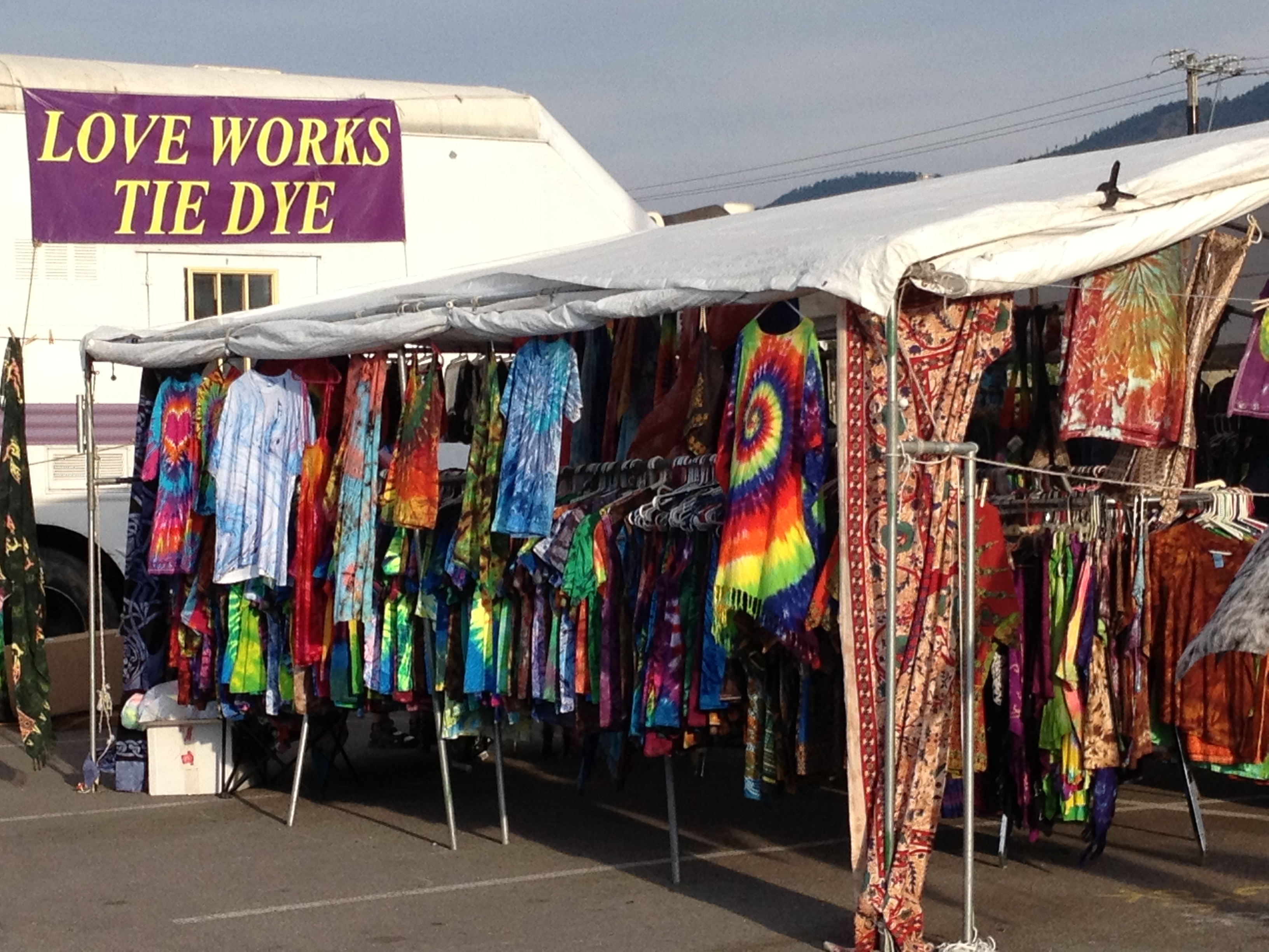 Love Works Tie Dye stand in Missoula Montana, July 29, 2013, after the Rainbow Gathering.